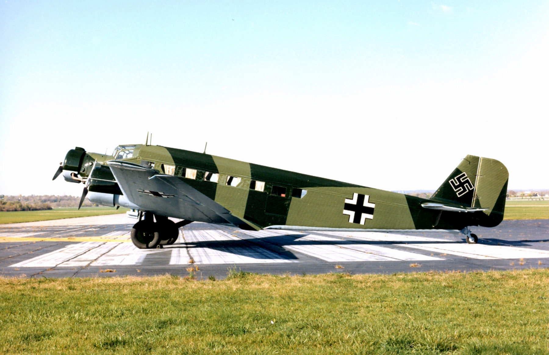 A former German Junkers Ju 52/3m transport plane at the National Museum of the United States Air Force at Dayton, Ohio (USA).